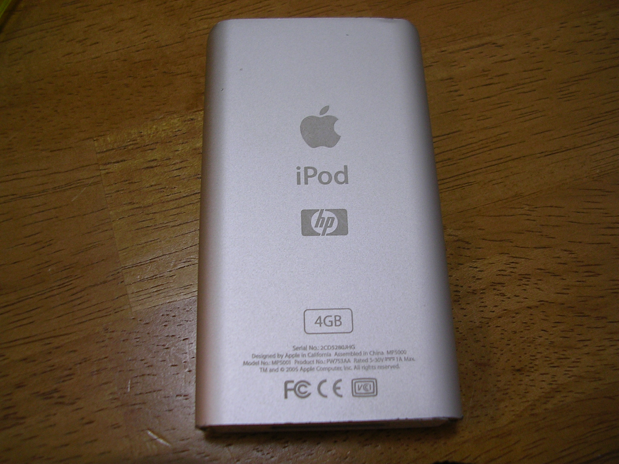 Hey, loook! It's an hp ipod!